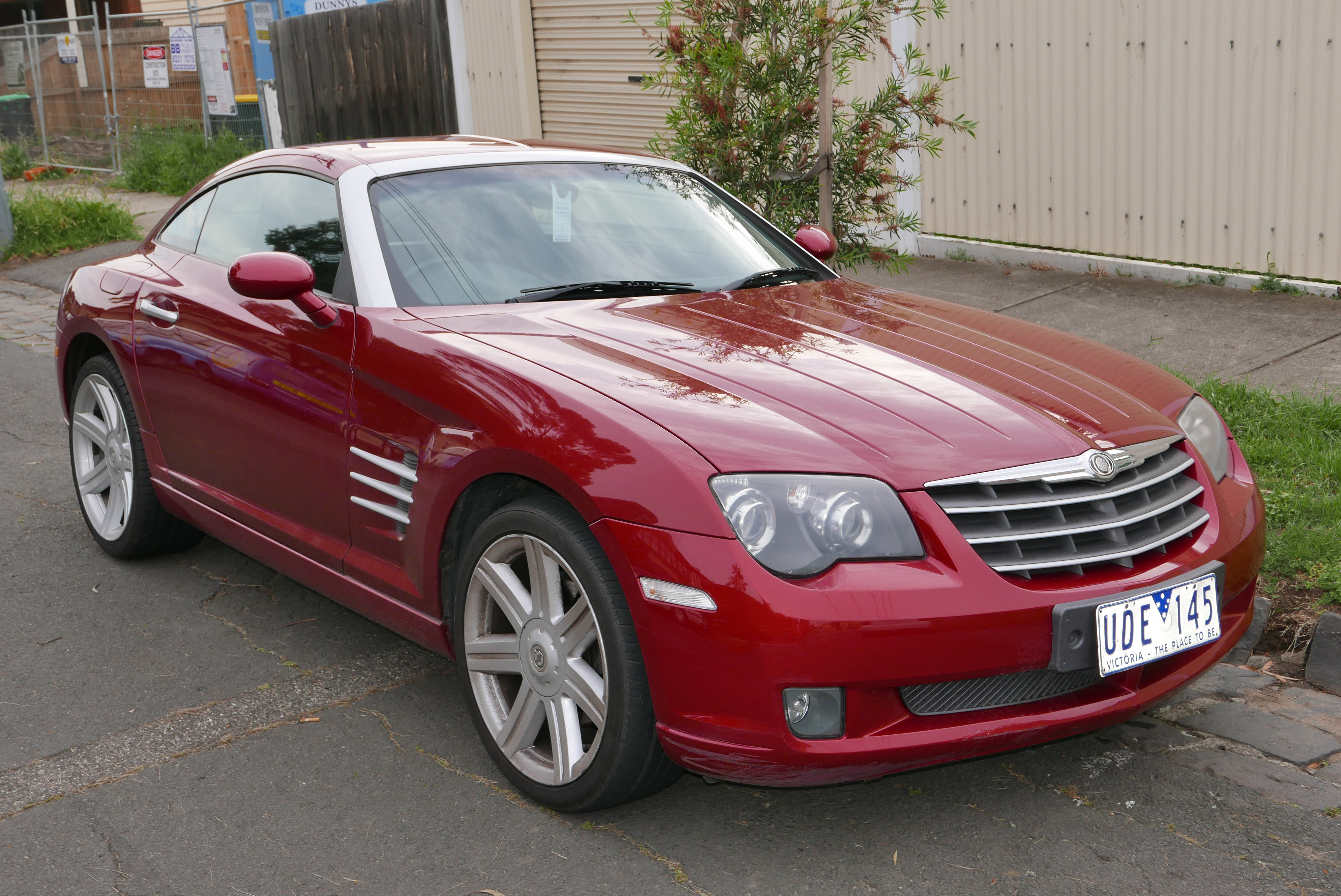 2006 Chrysler Crossfire (ZH MY05) coupe. Photographed in Ascot Vale, Victoria, Australia. Vehicle registration enquiry results Jurisdiction Victoria Registration UDE145 Chassis code 1C3APE9L74X022976 Engine code 4X022976 Compliance date 2006-04 Year of manufacture 2006